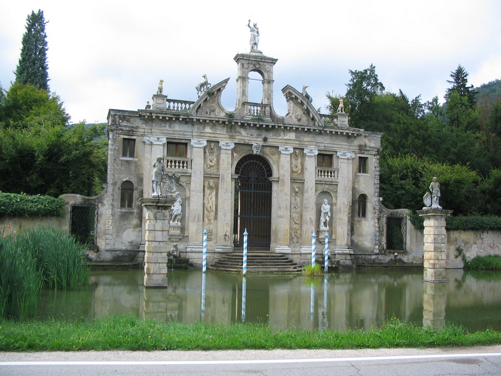 Valsanzibio